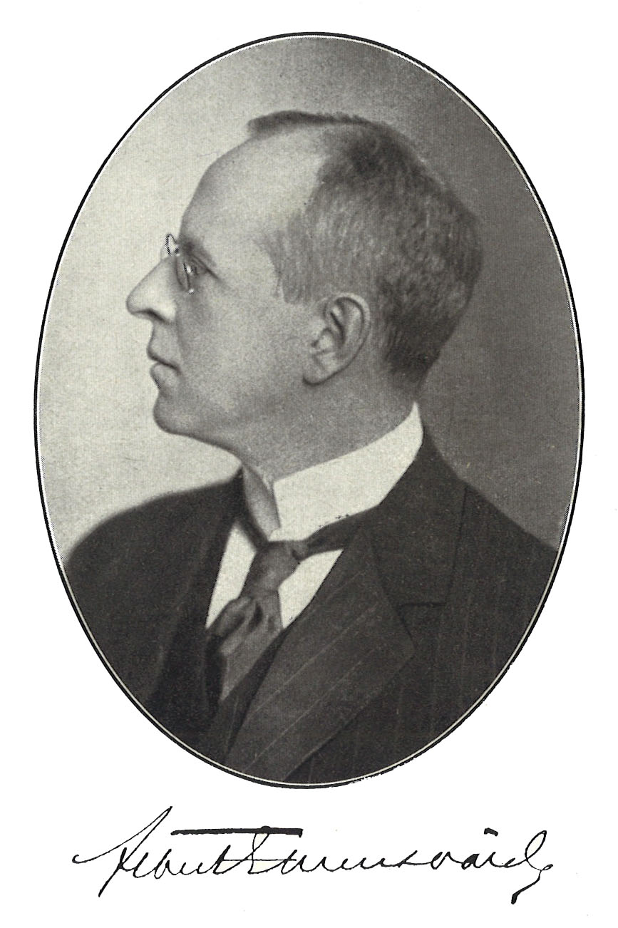 Albert Ehrensvärd (1867-1940), Swedish count, diplomat, politician and foreign minister.